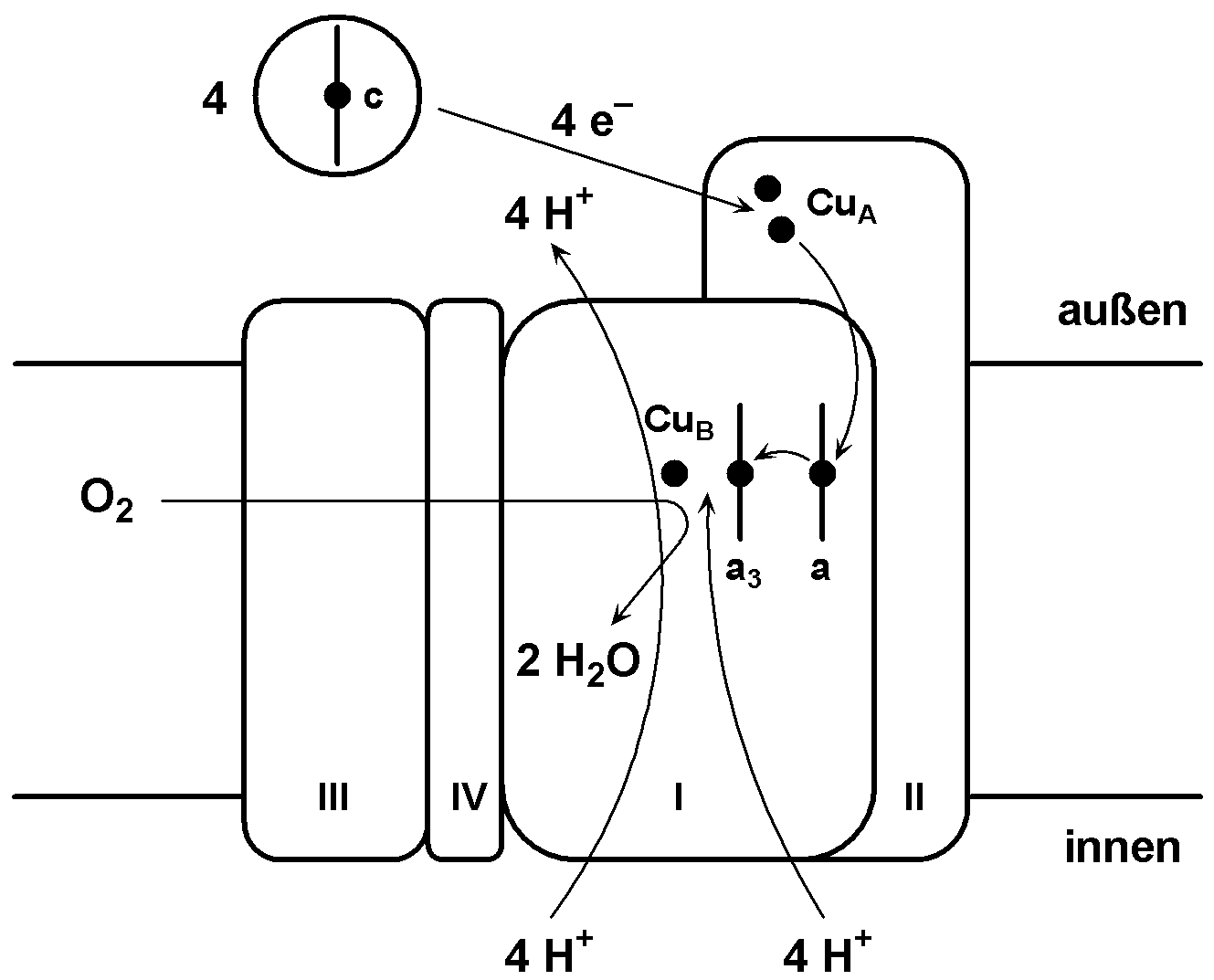 schematic representation of Complex IV of the electron transport chain.